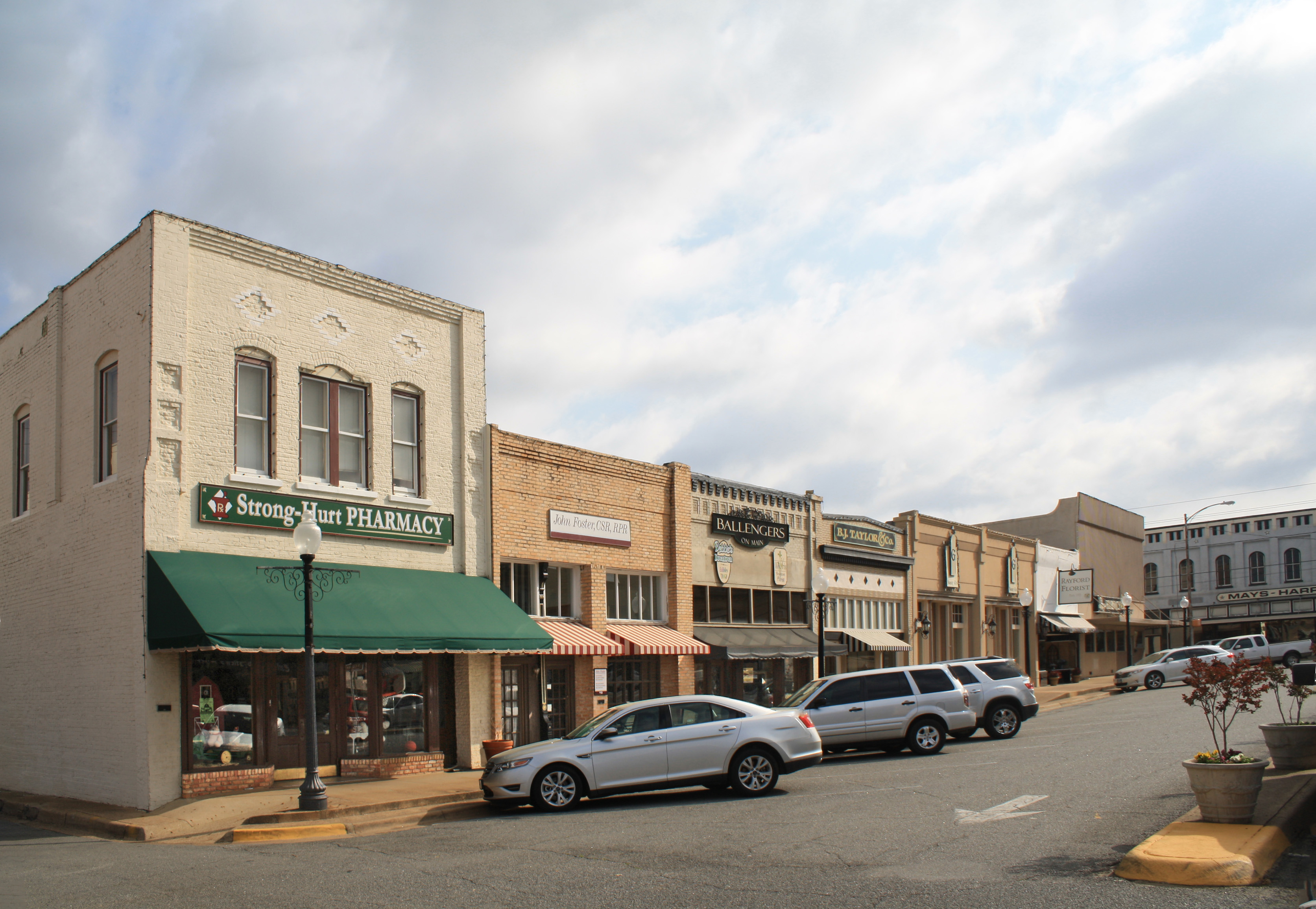 Downtown Henderson, Texas